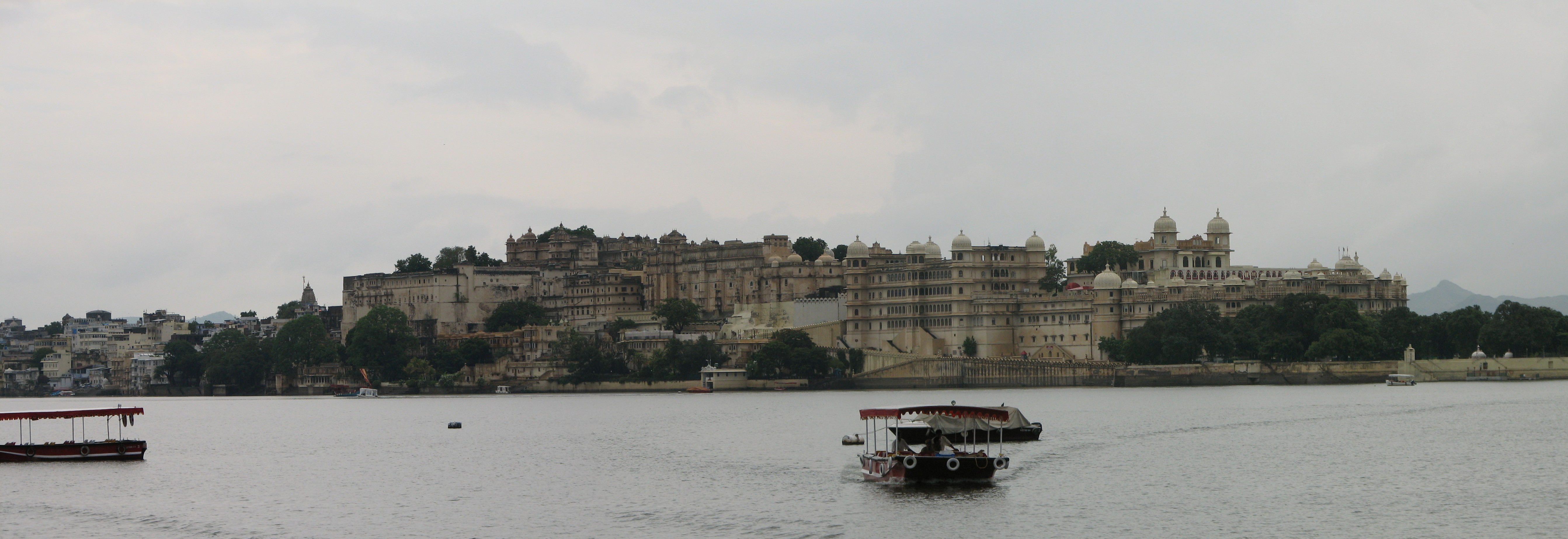 The dramatic Udaipur City Palace of the Majarana. The city palace has been built and extended in many stages since 1559